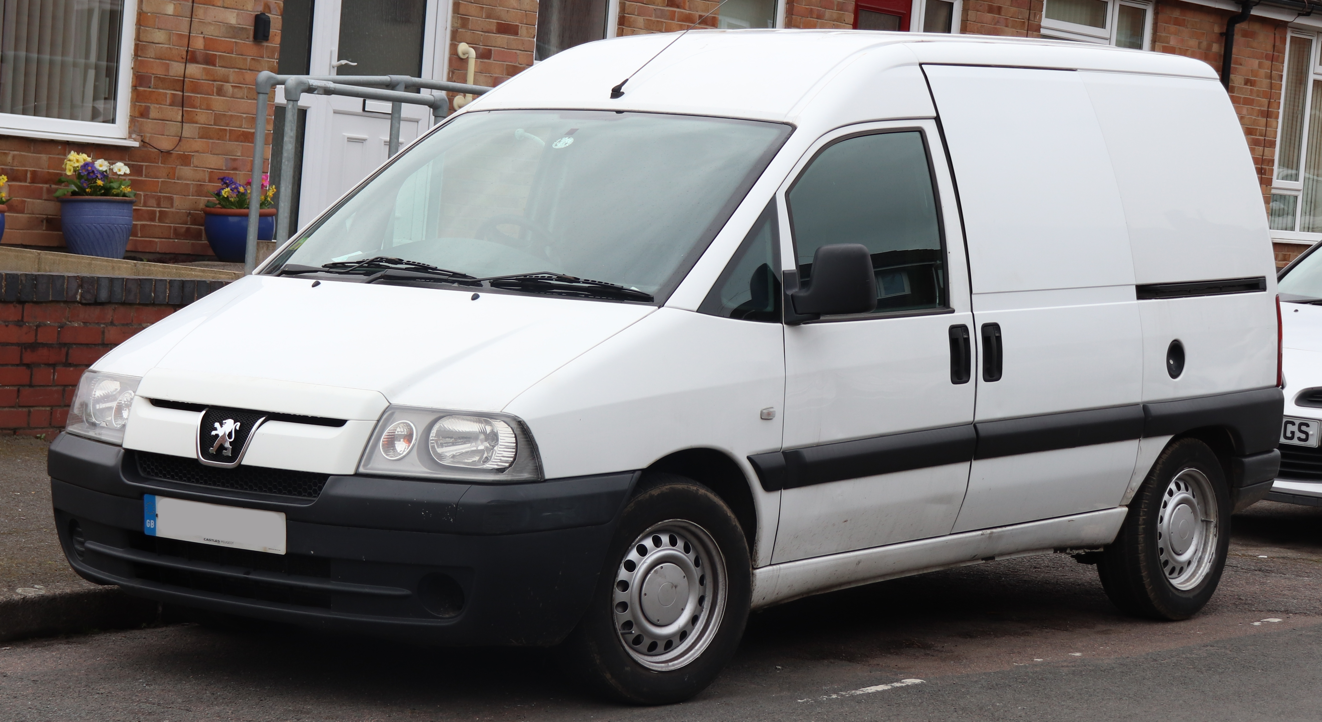 2005 Peugeot Expert 900 HDi facelift 2.0 Front Taken in Warwick